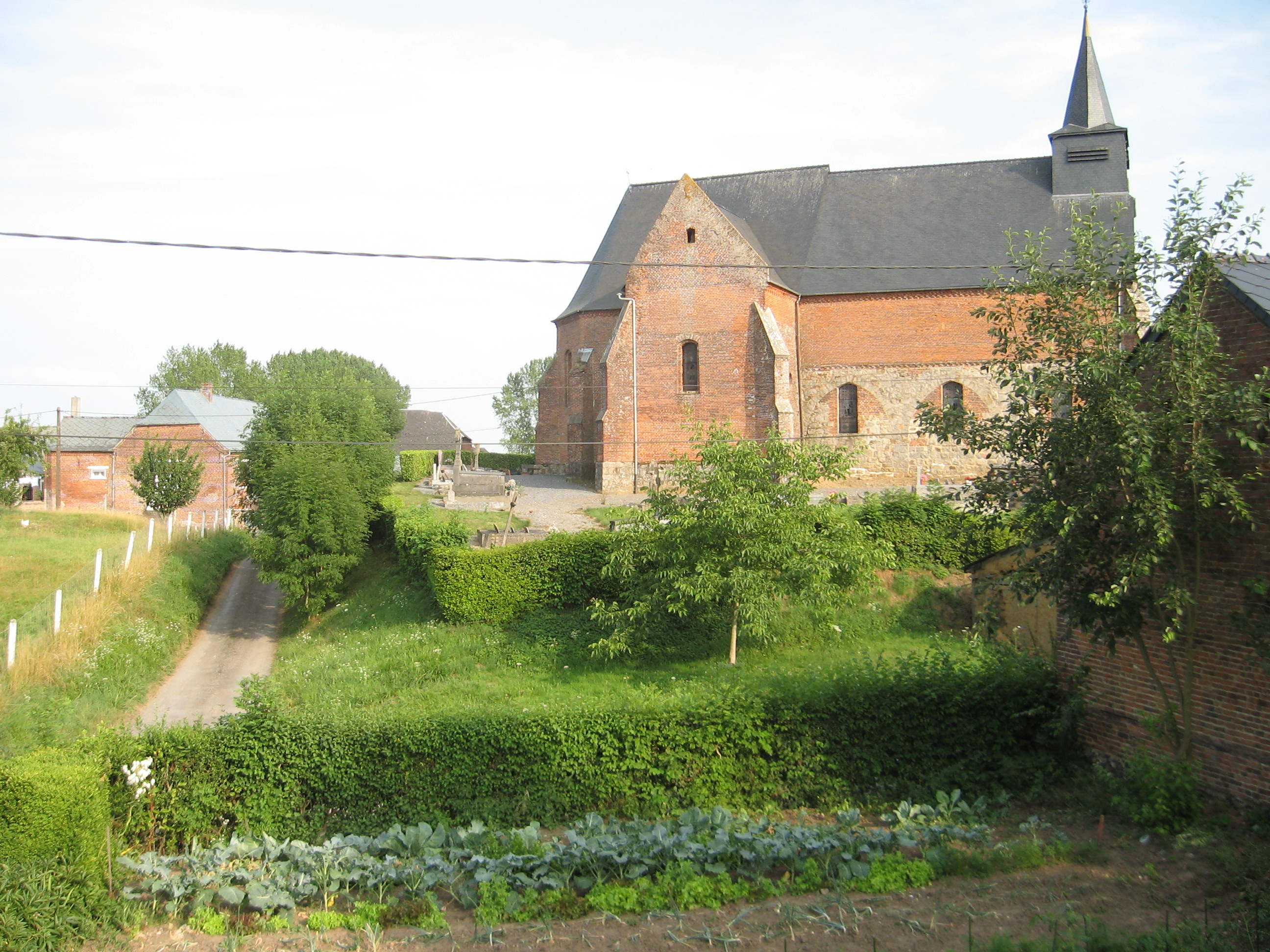 Haution